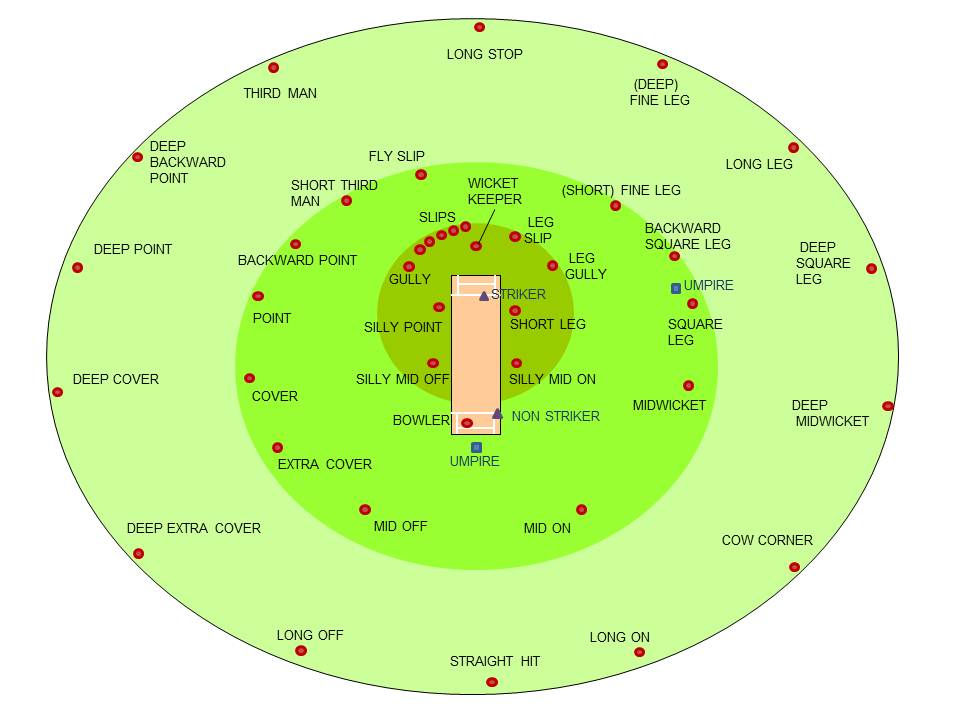 Diagram depicting cricket fielding positions for a right-handed batsman